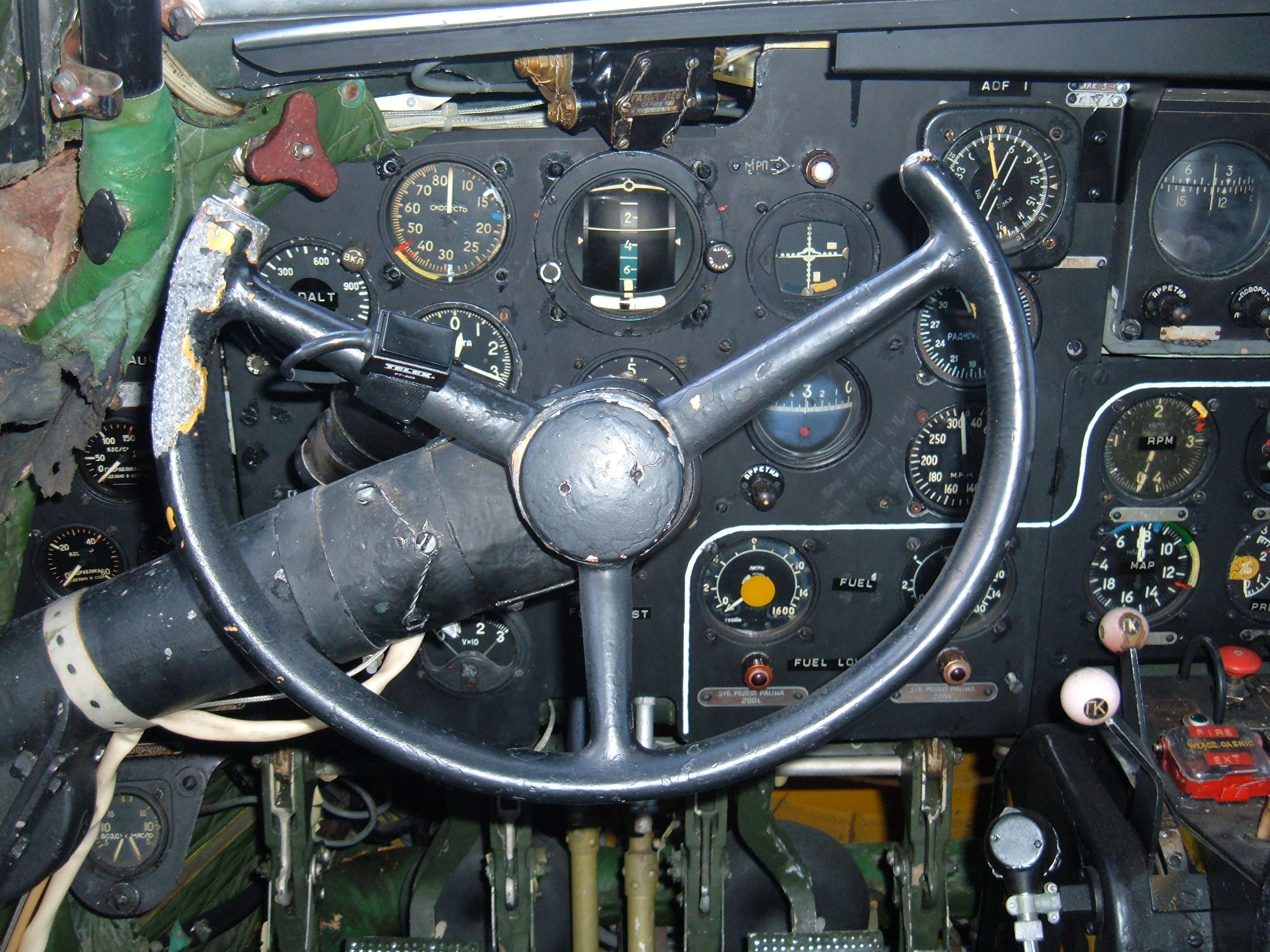 Port side yoke of an Ilyushin Il-14 "Crate" on display at the Pacific Coast Air Museum in Santa Rosa, California.